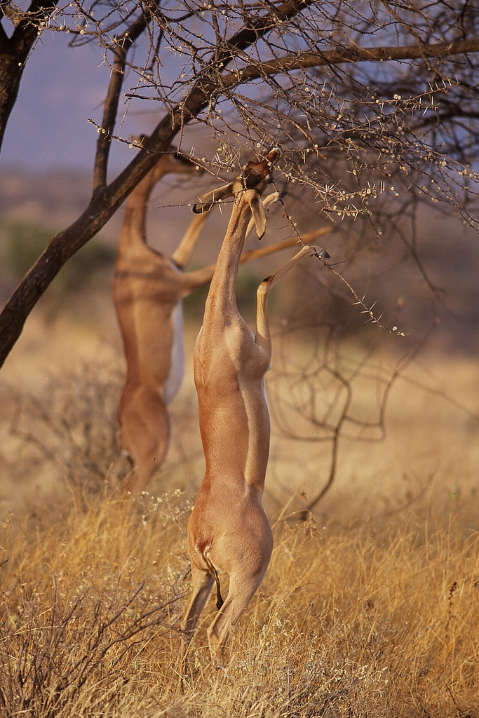 Gerenuks (Litocranius walleri) in the Samburu National Park - Kenya